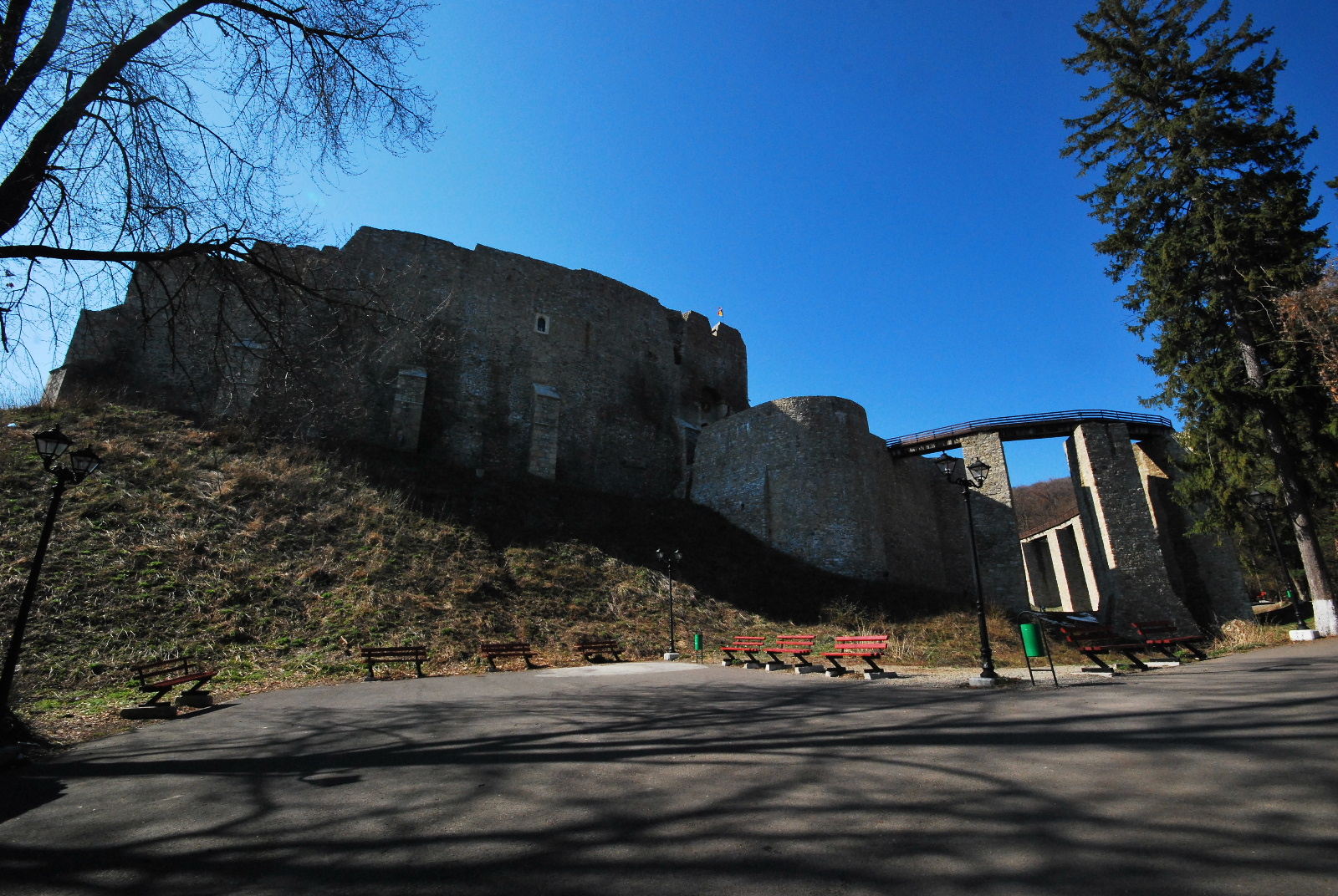 The Neamt Fortress